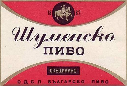 Shumensko beer label